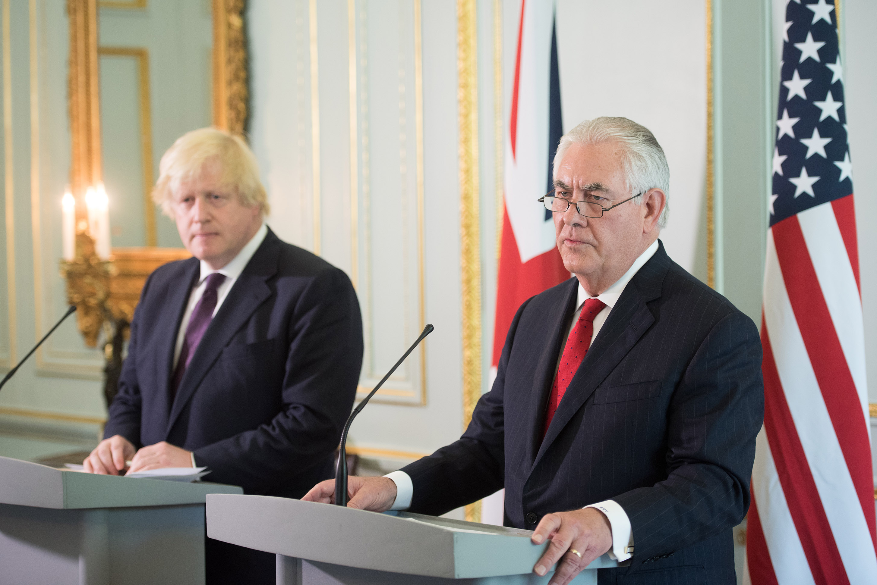 U.S. Secretary of State Rex Tillerson and British Foreign Secretary Boris Johnson address reporters gathered in Carlton House in London, United Kingdom, on May 26, 2017. [State Department photo/ Public Domain]